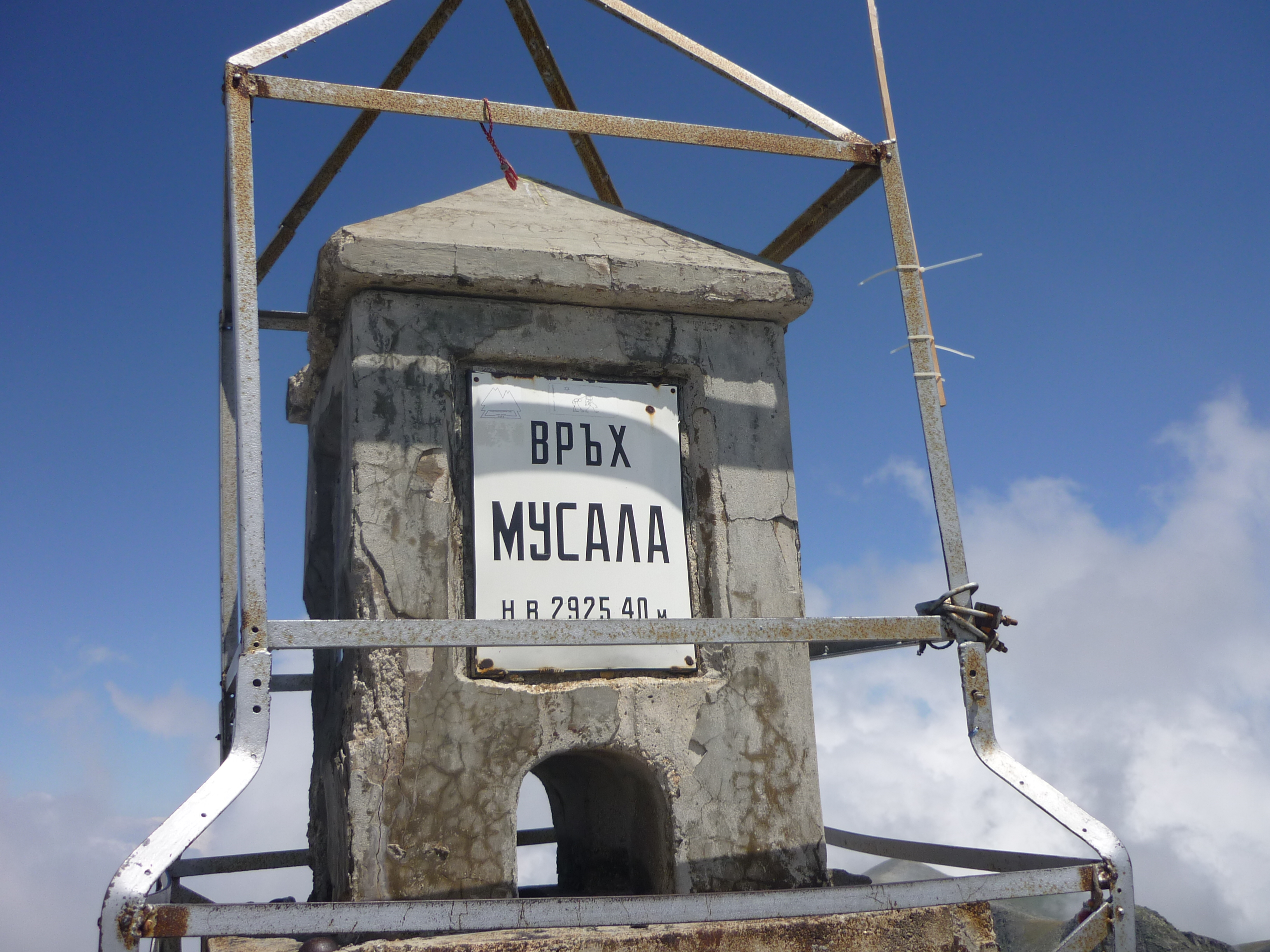 Musala - the highest peak in Bulgaria and the entire Balkan Peninsula, standing at 2,925 m (9,596 ft)